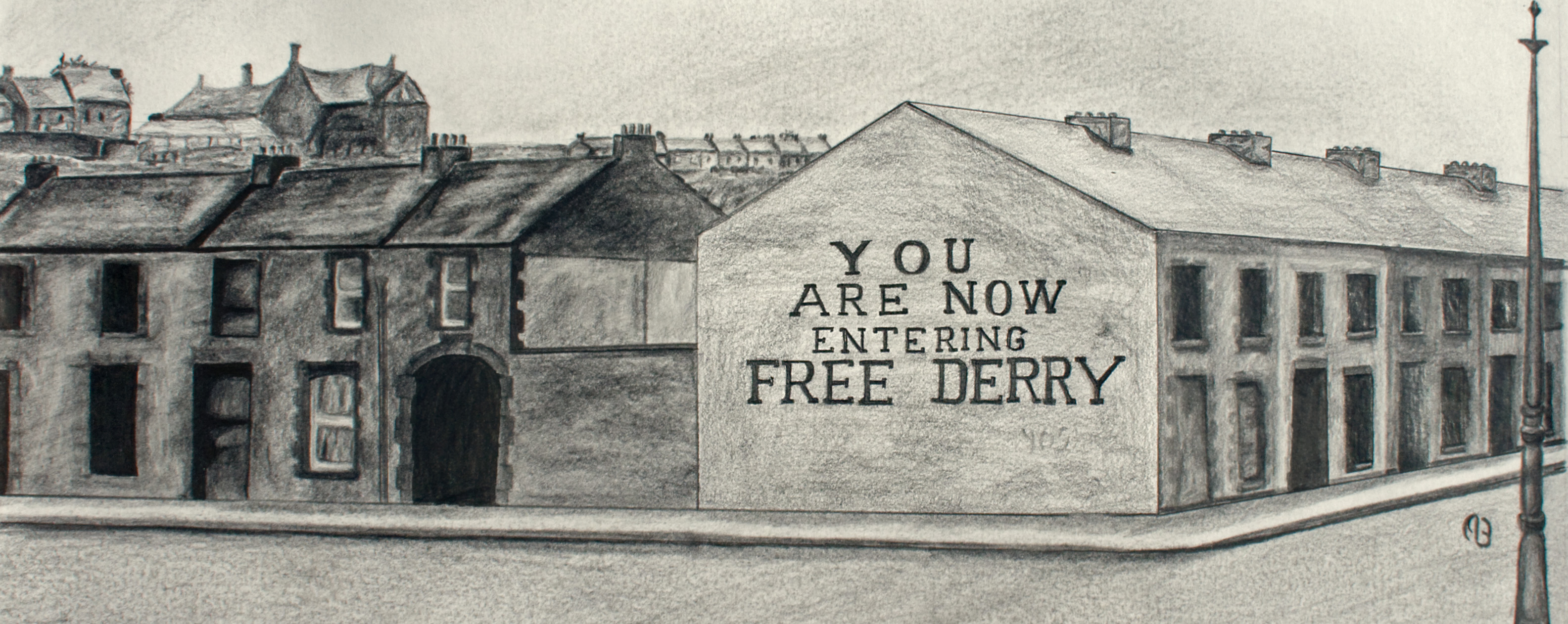 Free Derry Corner in the Bogside, part of the autonomous nationalist area of Free Derry in Northern Ireland between 1969 and 1972.